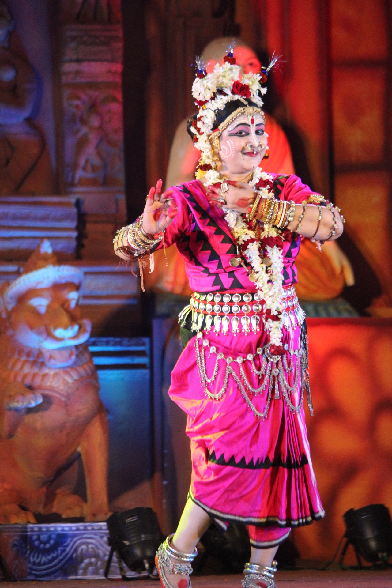 Mahari Dancer Guru Rupashree Mohapatra has performed Mahari Dance on the occasion of Bhaja Govindam classical & folk singing festival 2016 at Muktakash Rangamancha, Puri Odisha. Maharis were the temple dancers or devadasis of the Jagannath Temple at Puri and the dance takes its name after them.Mahari dance is nearly a millennium old with dance having been an integral part of the daily rituals at the Jagannath temple of Puri since the time of Ganga rulers of Utkal.